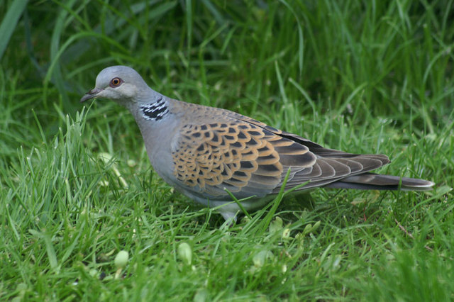 Turtle Dove, a declining species in Britain; this migrant is a long way north of the nearest regular breeding areas.